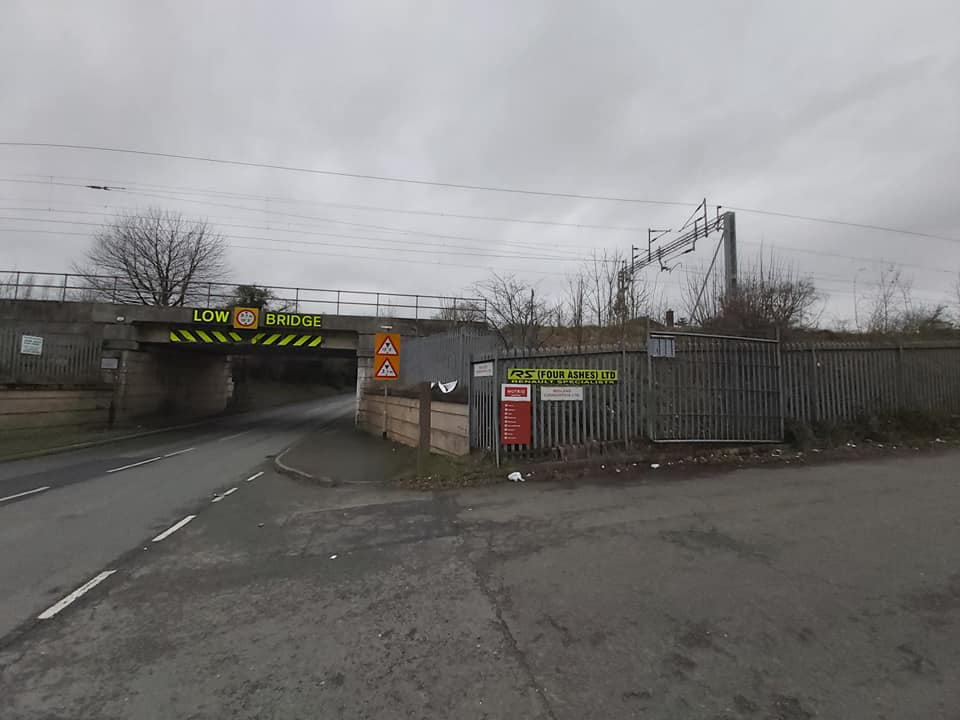 Site of Four Ashes, Staffordshire in 2020